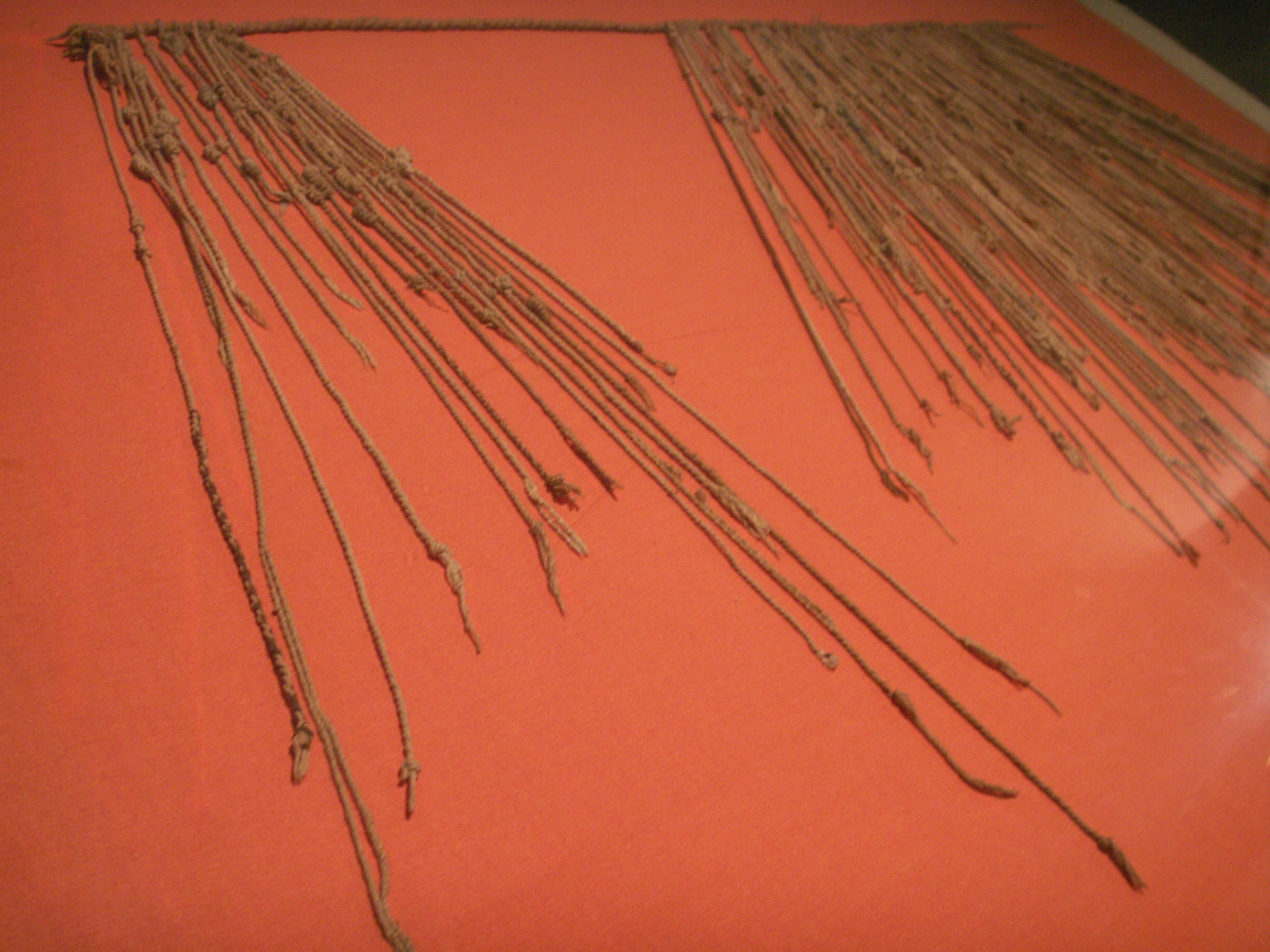 Picture taken at the Museo De La Nacion in Lima Peru